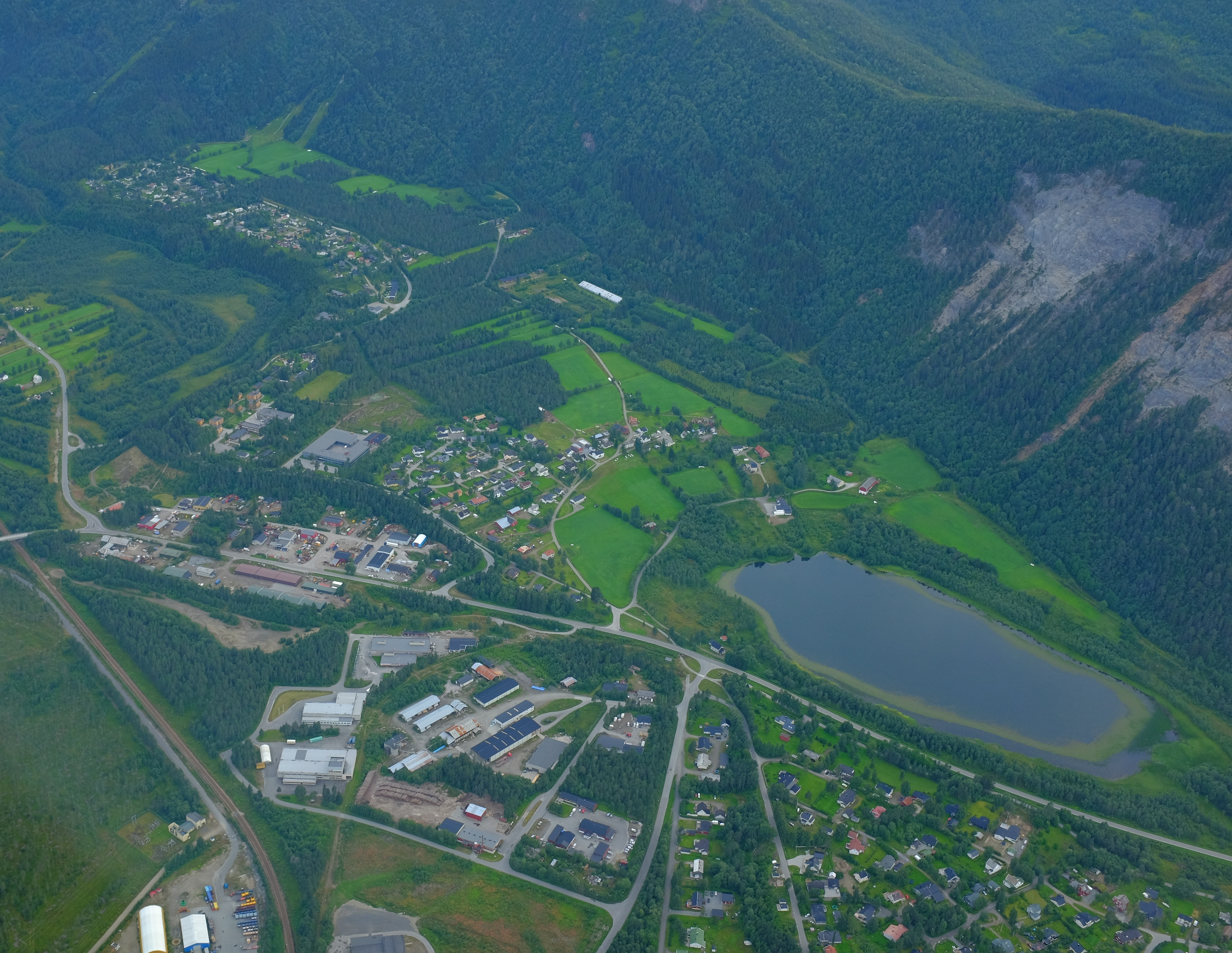 Fiskvågvatnet nature reserve is located in Saltdal municipality in Nordland. The nature reserve comprises Fiskvågvatnet, just west of Rognan.